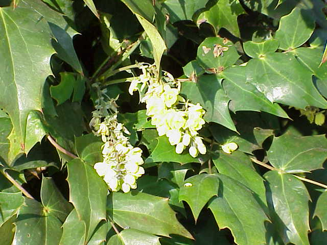 Species: Mahonia japonica Family: Berberidaceae Image No. 3